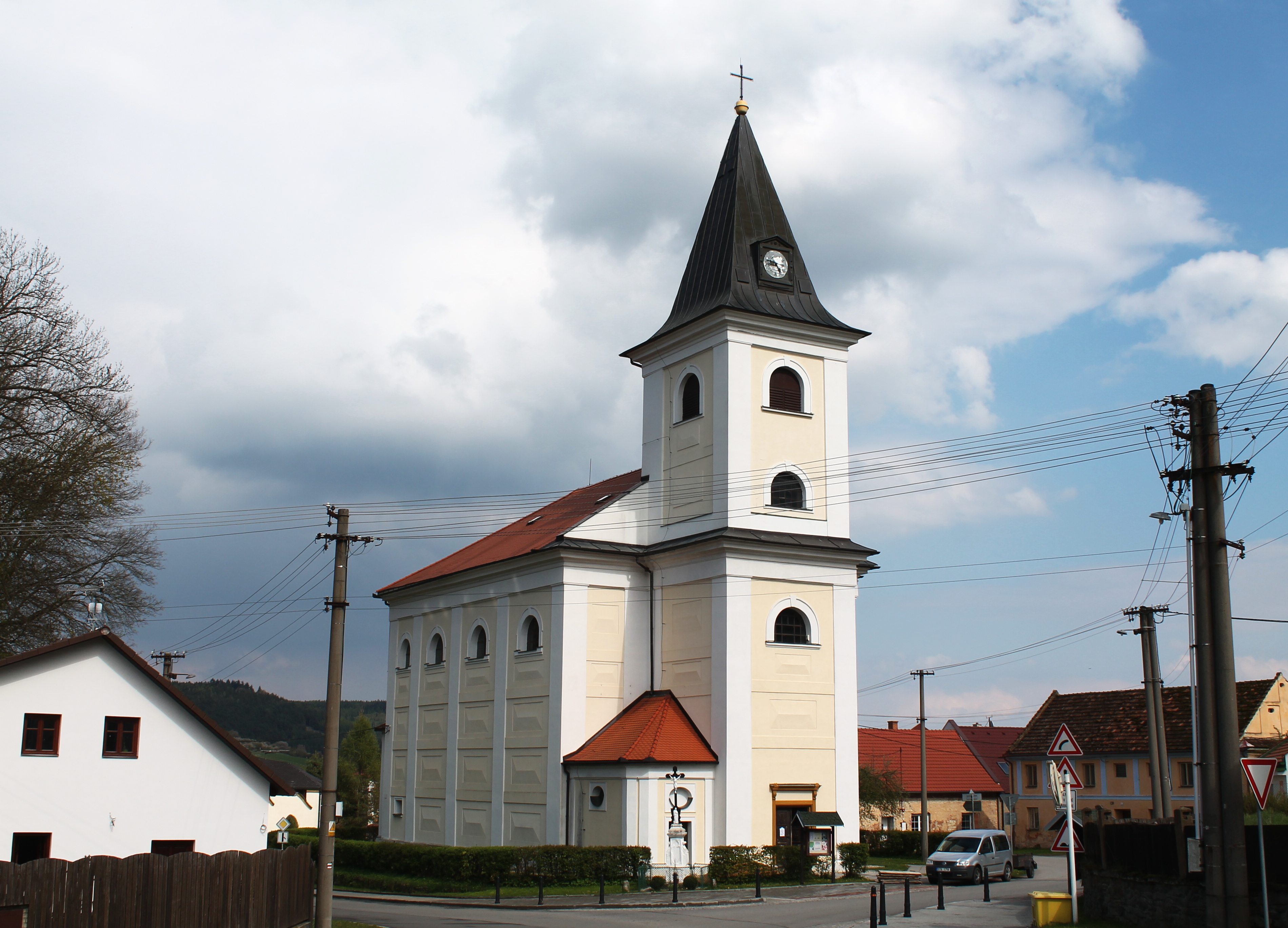 Church of Saint Jerome, Křetín, Blansko District, Czech Republic This photograph was taken during a group photography field trip by Brno Wikipedians: 2017-04-29.